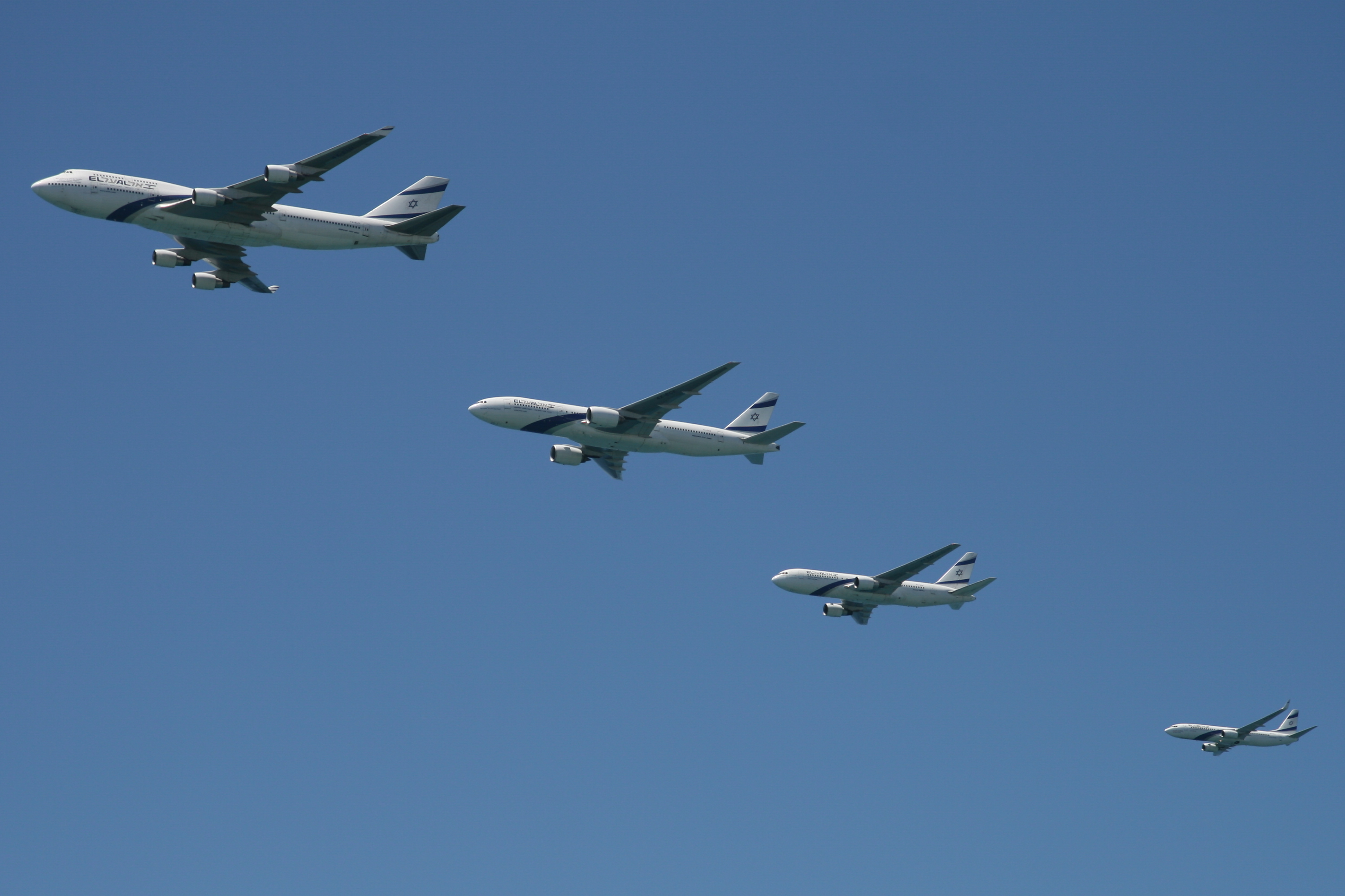 El Al Boeing 747, 777, 767 and 737 liners